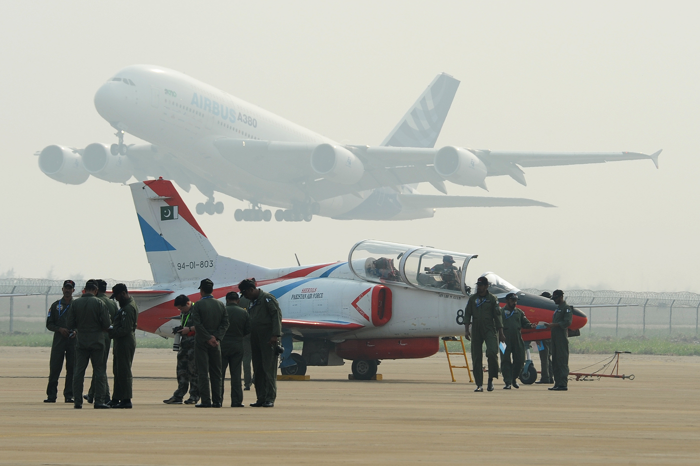 During the Zhuhai Air Show 2010 a K-8 Karakorum of the Pakistan Air Force aerobatics team, Sher Dils, stands on the airfield. In the background an Airbus A380 flies past.